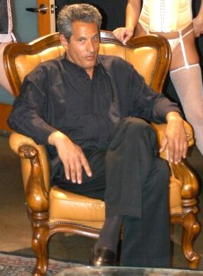 American pornographic actor Herschel Savage, taken on a movie set on June 6, 2006